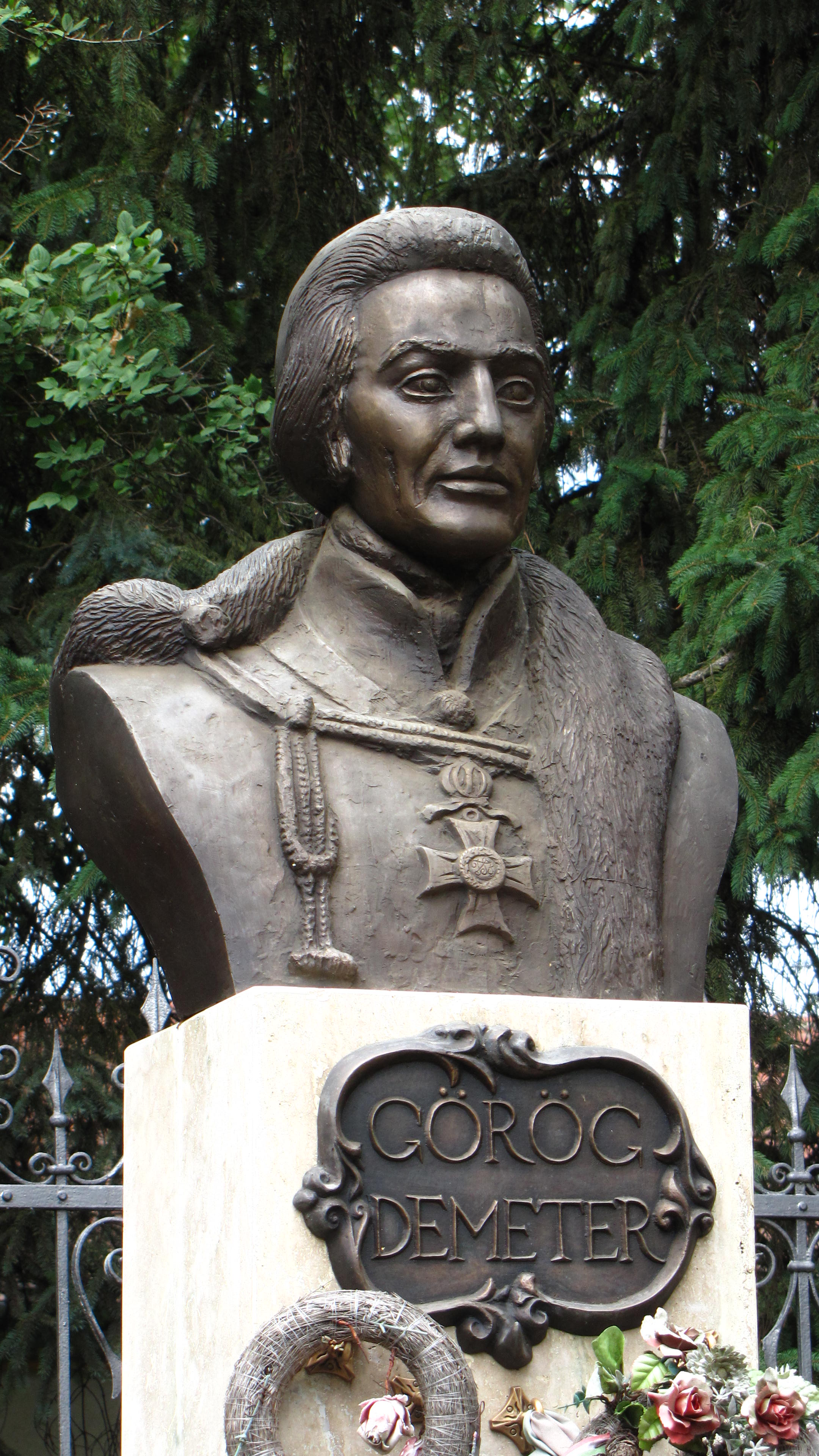 Bronze statue of Demeter Görög in his birth place, Hajdúdorog, Hungary. The statue is situated in a small park close to the town hall.